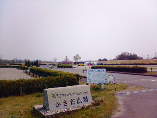 Kiso Sansen National Government Park, Sanpasen Zone, Kasaza Plaza 国営木曽三川公園三派川地区かさだ広場 入口